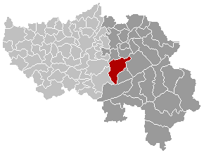 Map, municipality belgium Theux